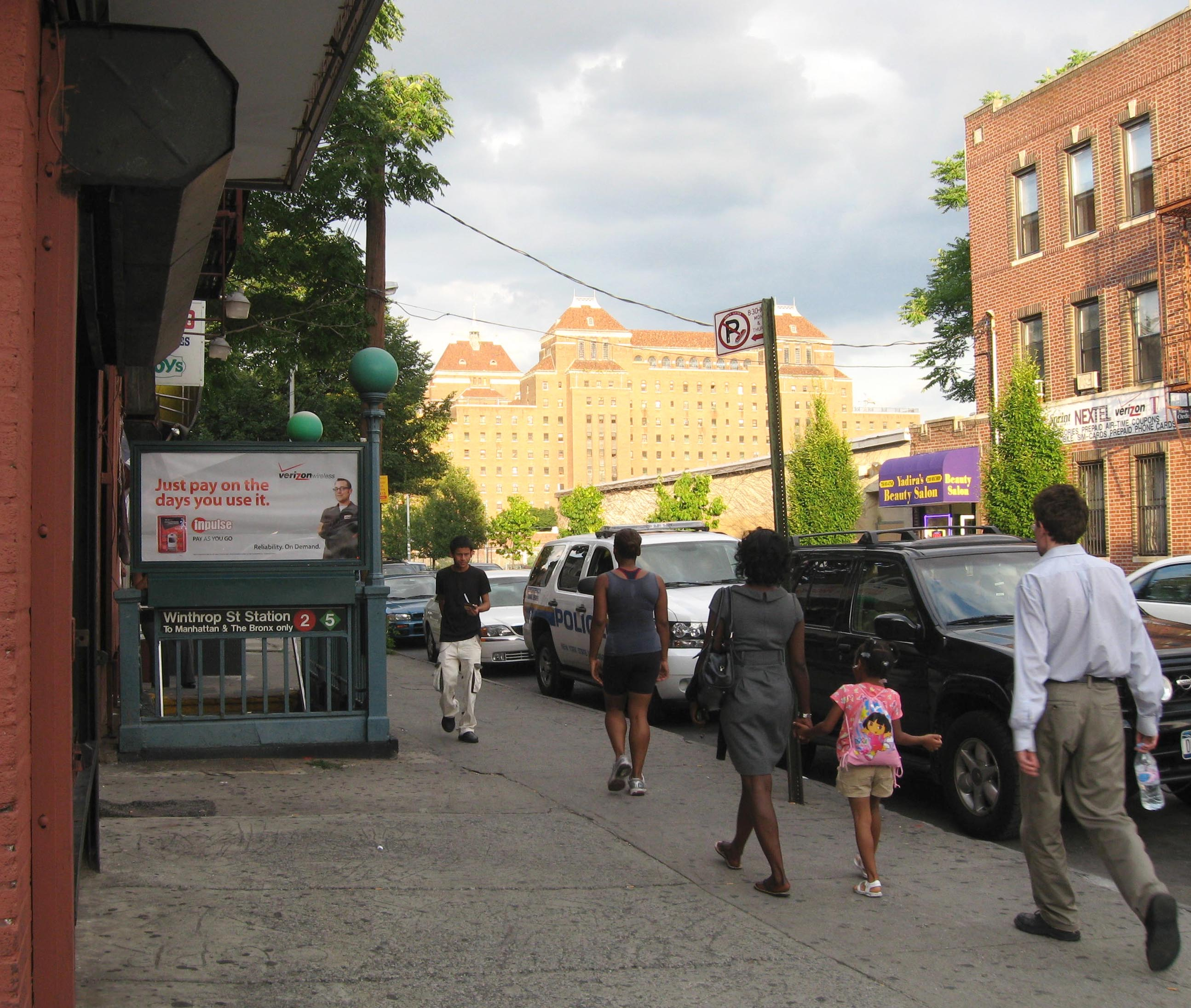 Looking east from Nostrand Avenue along Winthrop Street at Winthrop Street (IRT Nostrand Avenue Line) on a sunny late aftrnoon with Kings County Hospital Center in background